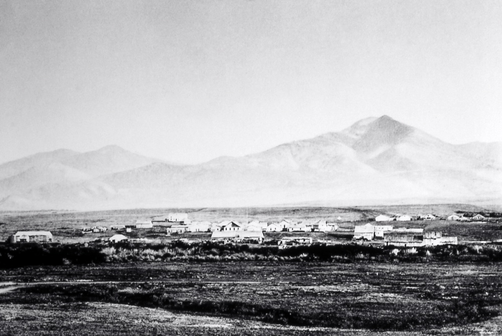 Fort Ellis, Montana, July 1871, Photo by William Henry Jackson taken during Hayden Geological Survey 1871